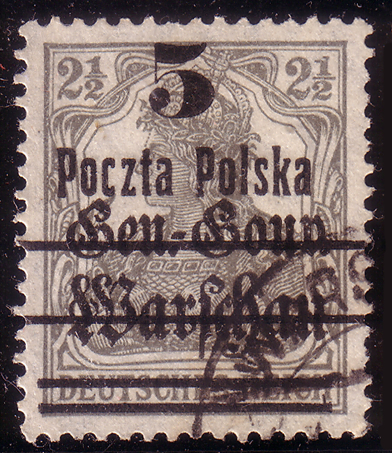 Postage stamp for General-gouvernment Warsaw (Poland) overprinted with Poczta Polska, 5 pfennigs, 1919